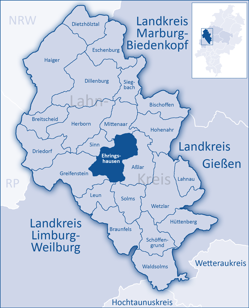 The map shows a district in the area of Lahn-Dill-Kreis